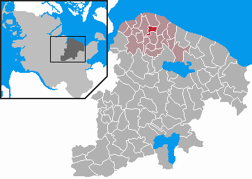 This map shows the area of the Gemeinde (municipality) Krokau in the Kreis (district) Plön, Schleswig-Holstein, Germany.